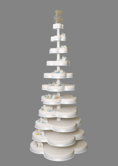 The Royal Swedish Wedding Cake from the wedding between Crown princess Victoria and Daniel Westling. The cake was a gift from the Swedish Association of Bakers and Confectioners.